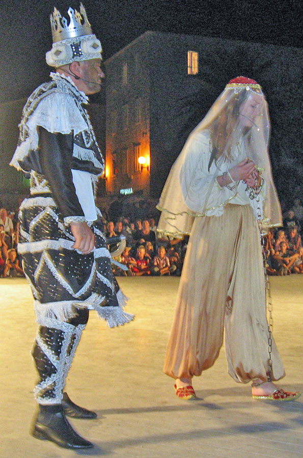 photo of Moreska with moro and bula